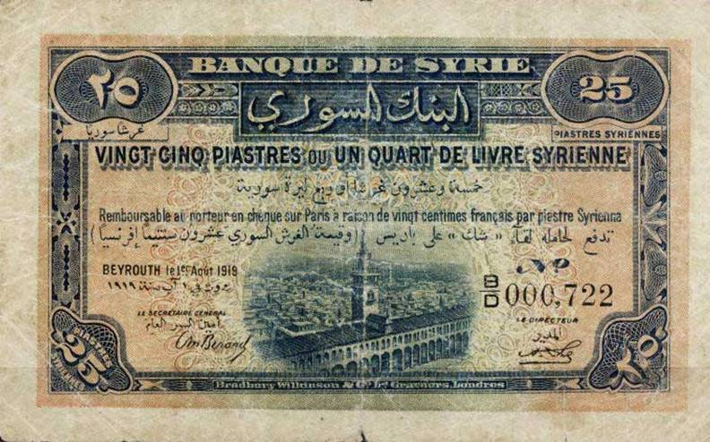 SYRIAN 25 PIASTRES banknote issued in 1919